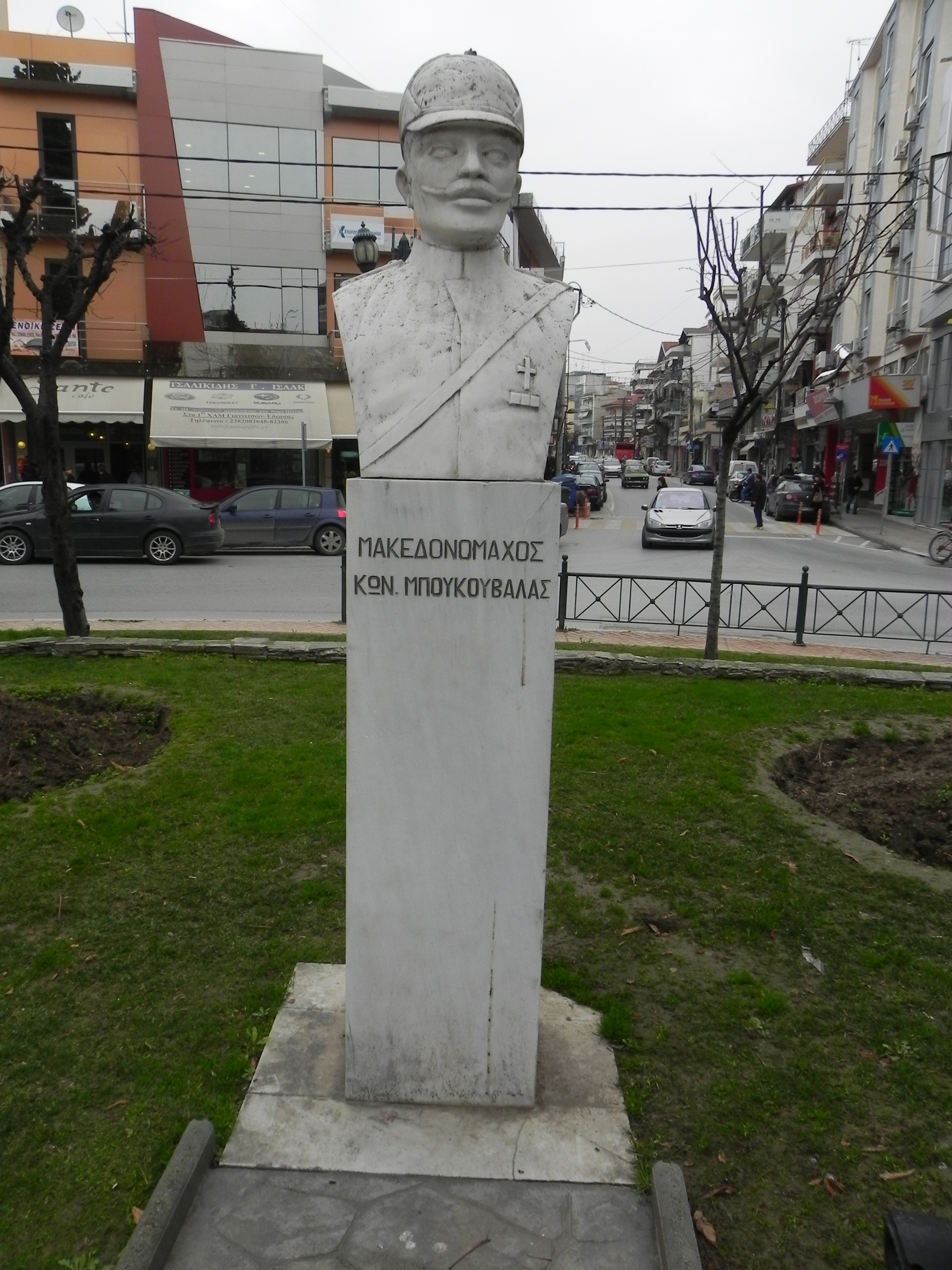 Konstantinos Bukovalas, greek revolutionary, Enidzhe Vardar or Giannitsa